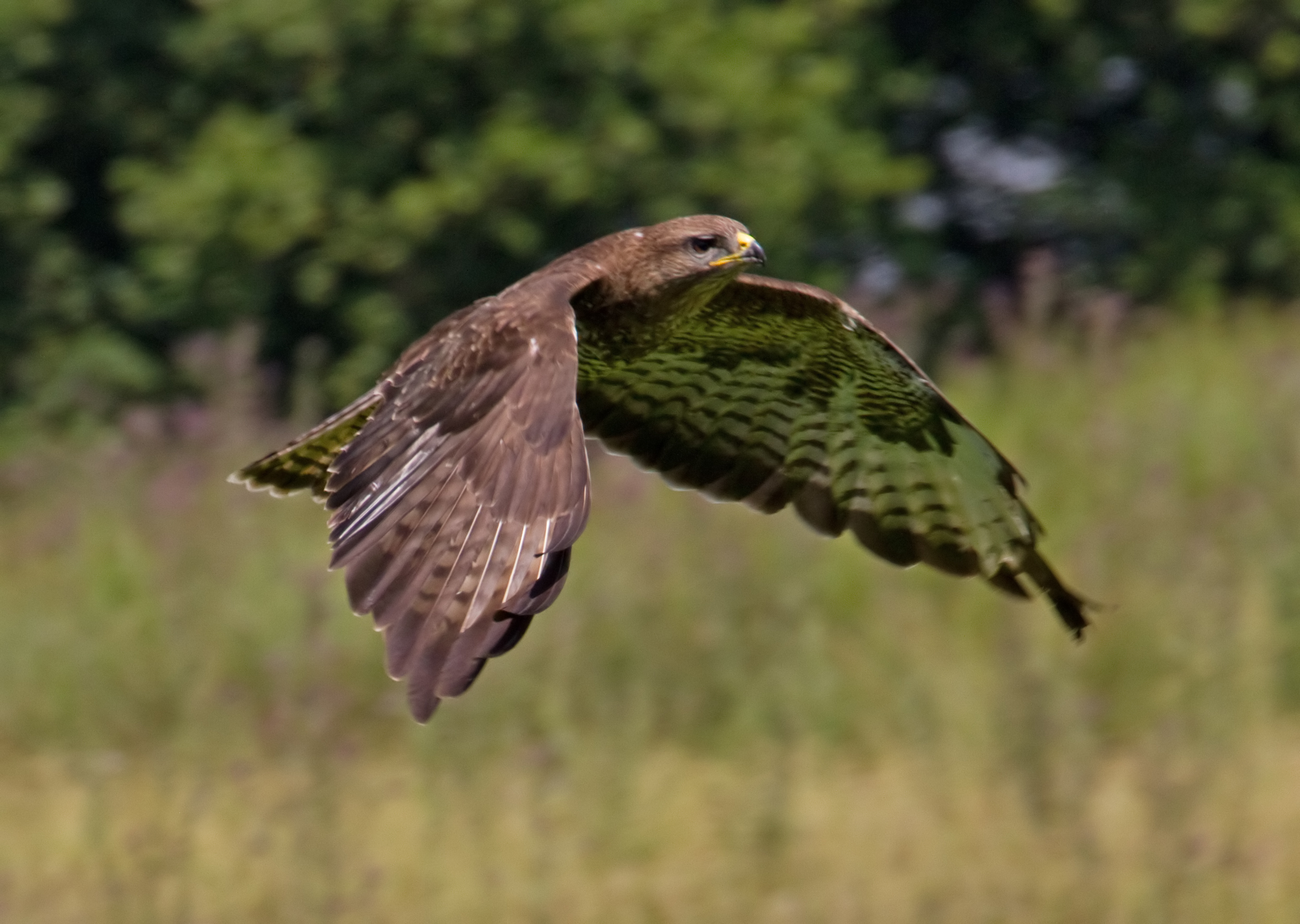 As well as Red Kites several Buzzards also arrive at the feeding centre. They tend to stay on the ground to feed, rather than taking the food into the air.